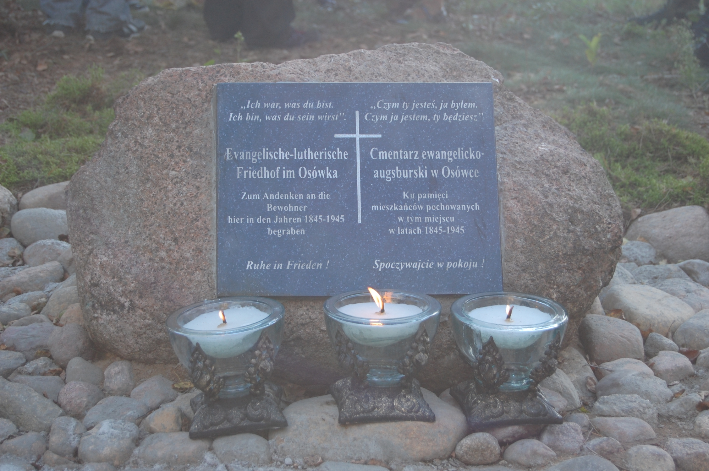 memorial plaque